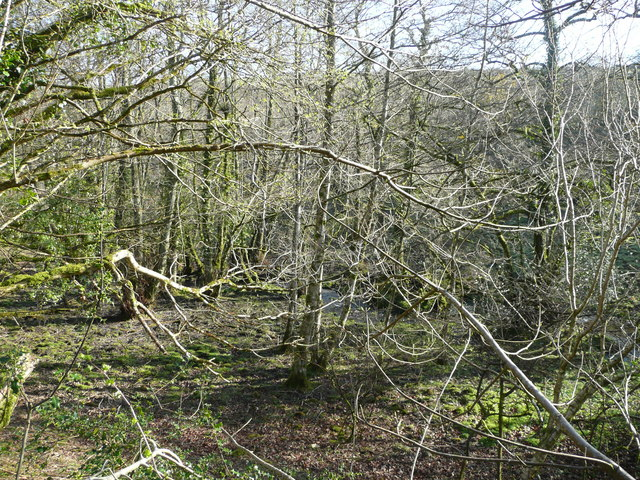 Deep wooded valley near Trenay View north-east on a bright spring morning.